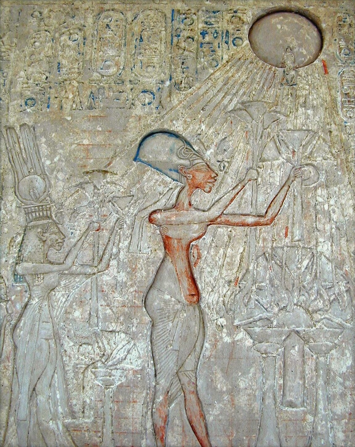 Relief of Akhenaten, Nefertiti and two daughters adoring the Aten. 18th dynasty, reign of Akhenaten.